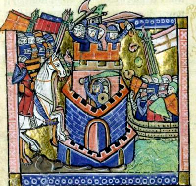 Tyre being blockaded by the Venetian fleet and besieged by Crusader knighthood